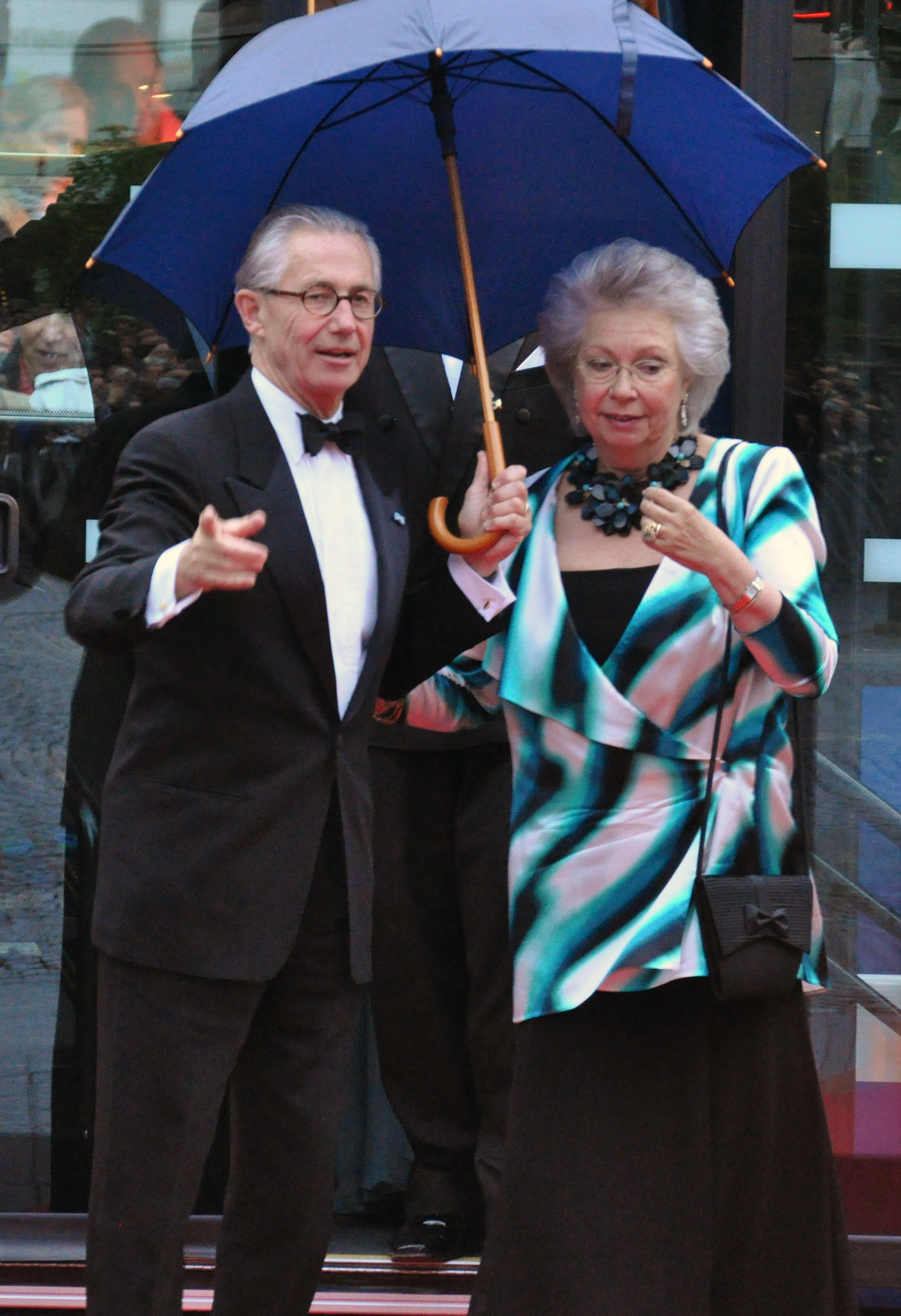 Wedding of Victoria, Crown Princess of Sweden, and Daniel Westling; Arrival of members for the Gouvernment and Swedish and foreign guests of hounour to the Riksdag's Gala Performance at Konserthuset